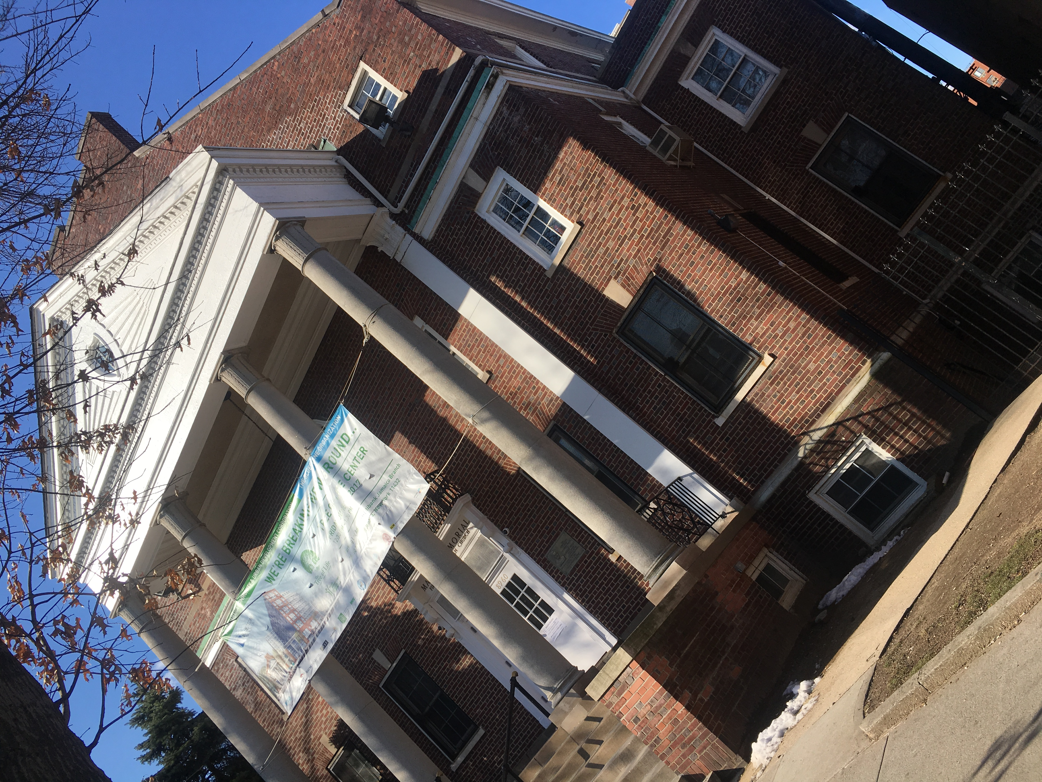 The First Presbyterian Church from the outside in Jamaica, Queens, 2018